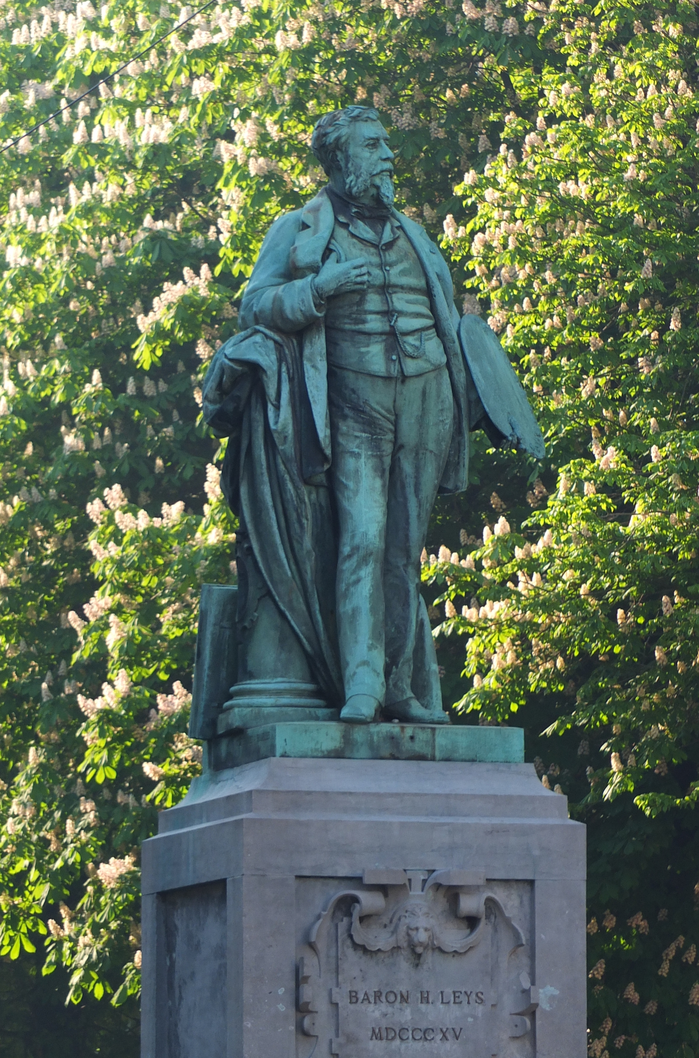 Statue of the painter baron Hendrik Leys by Joseph Ducaju at Maria-Louizalei in Antwerp.